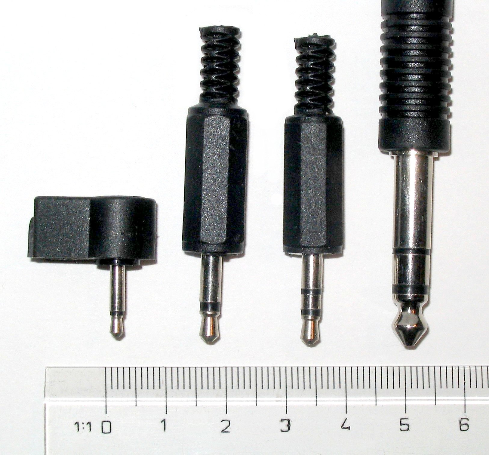 Description: Jack plugs Author, date of creation: selfmade by Shaddack, 6 November 2005 Source: self-made Copyright: Public Domain (PD) Comments:Jack connectors 2.5 mm diameter mono, 3.5 mm diameter mono and stereo, 6.3 mm diameter stereo, with scale